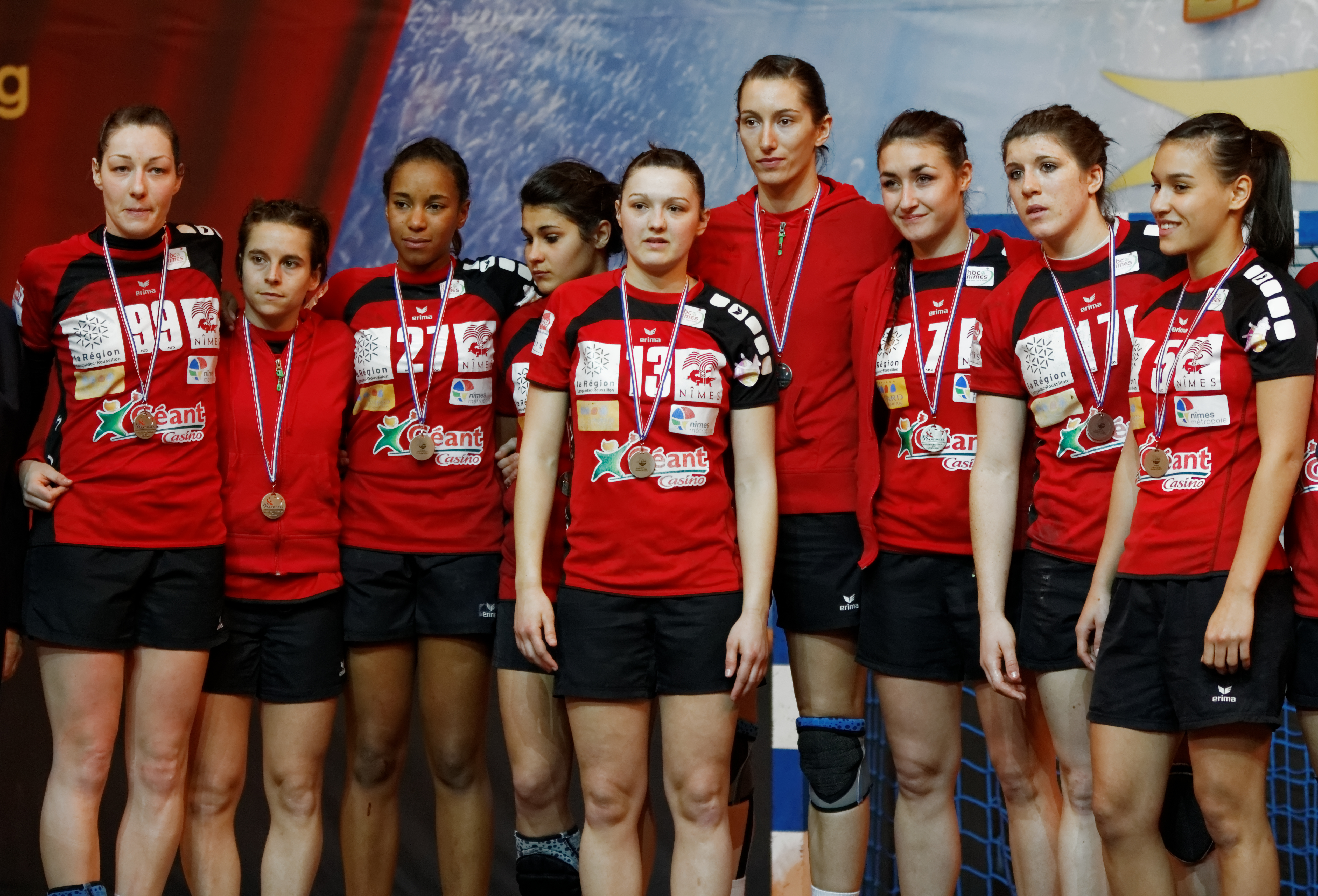 Final of the Women's handball French cup 2013. Handball Cercle Nîmes vs Issy Paris Hand, stadium Pierre-de-Coubertin at Paris.